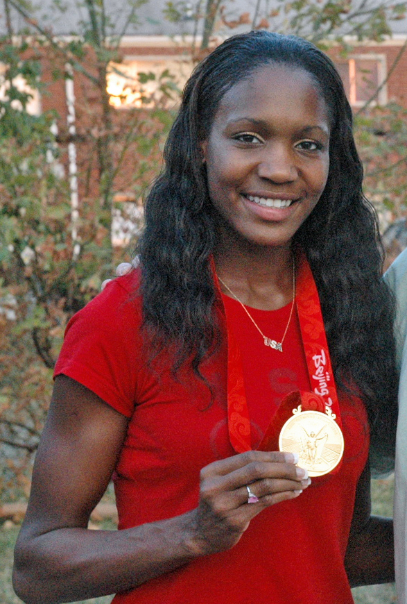 Olympic Medalist Mary Wineberg. (original text)